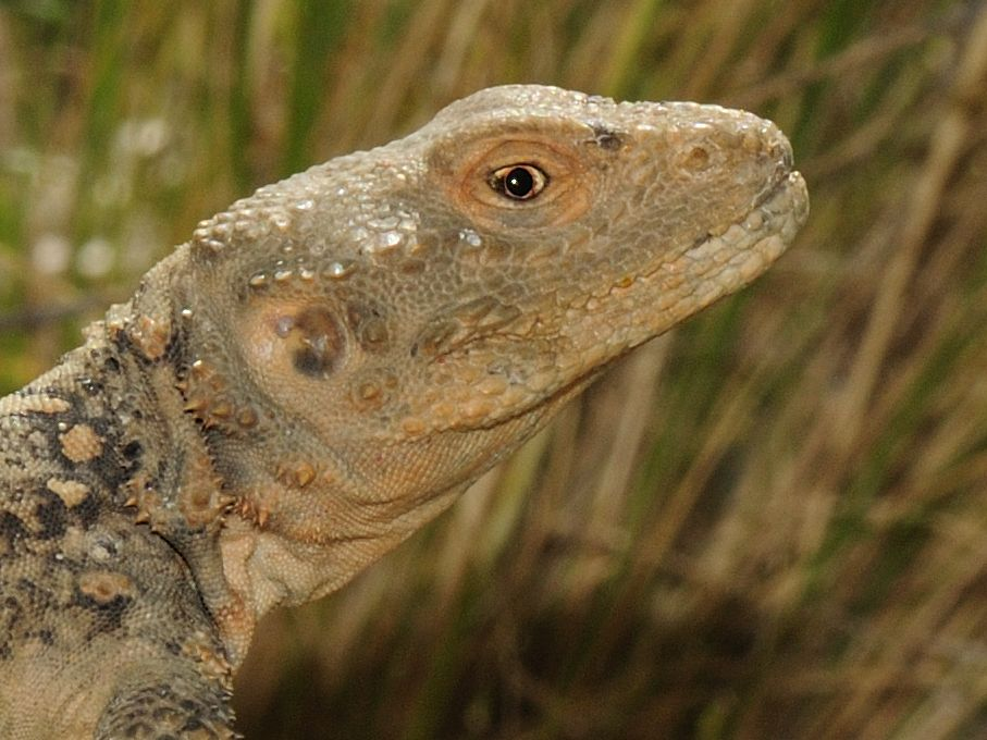 Laudakia caucasica in Dawit Garedscha (Georgia)